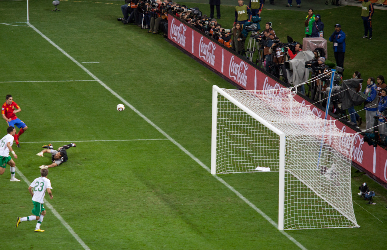 Gol by David Villa, Spain - Portugal, FIFA World Cup 2010